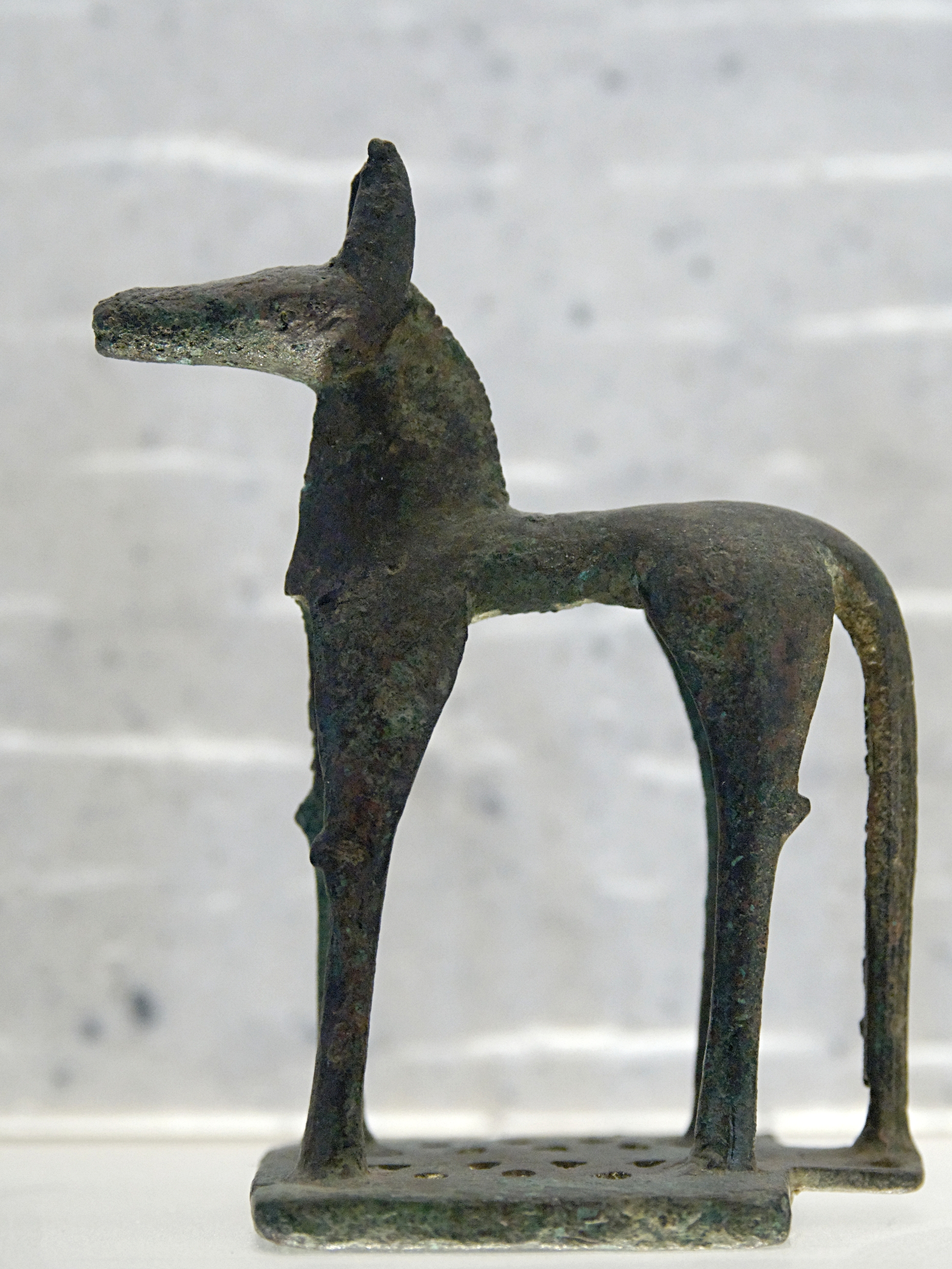 Bronze horse, Laconian style, ca. 740 BC. From Olympia.